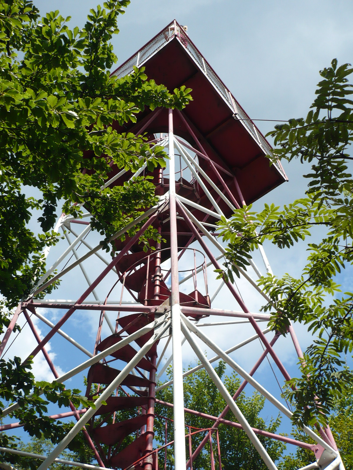 observation tower Žaltman - look from the bottom, near Trutnov, Czech Republic